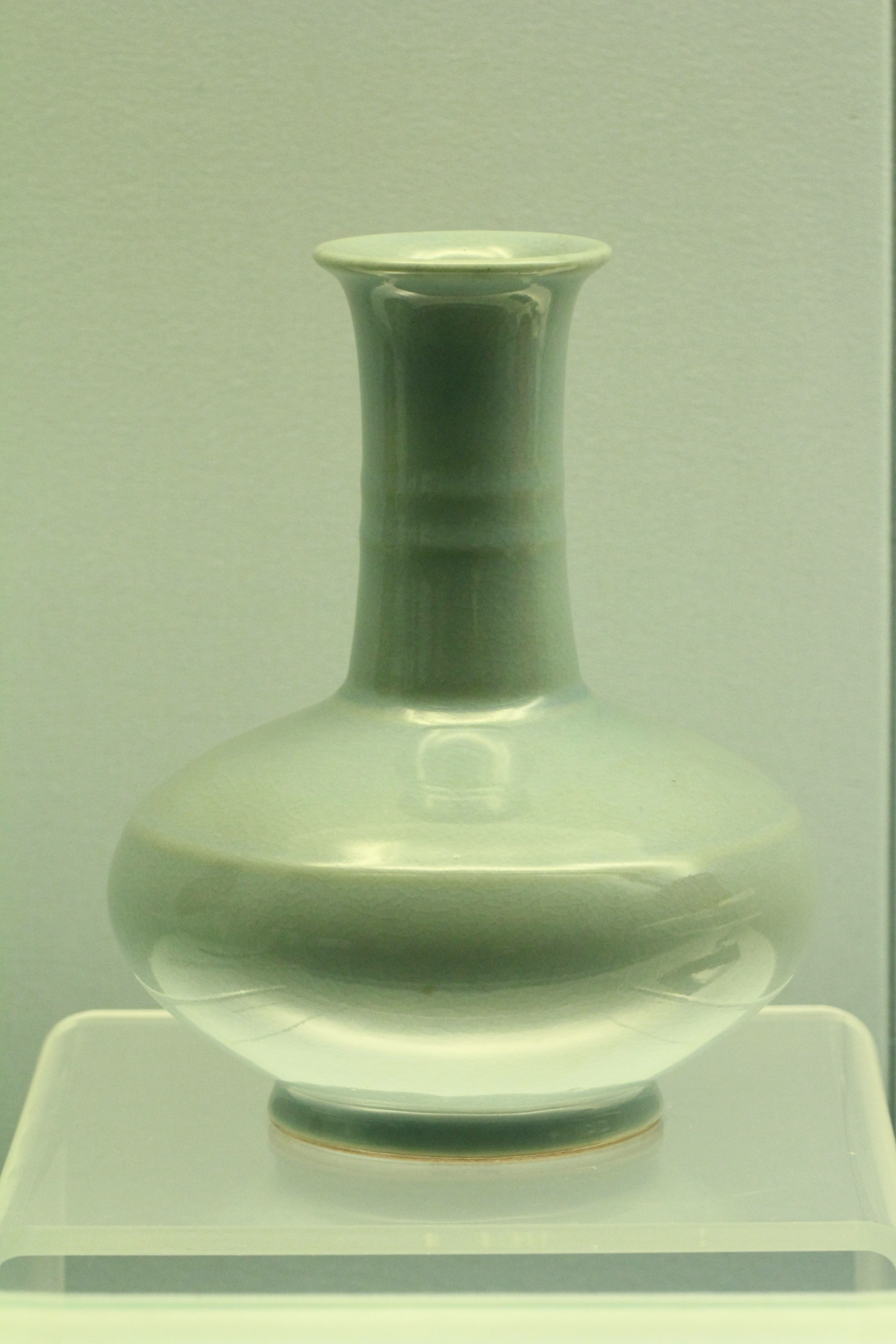 Ru-type vase. Jingdezhen Ware. Yongzheng Reign (A.D. 1723-1735), Qing.